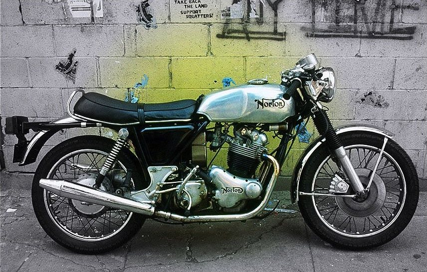 Norton Motor Cycle, NYC